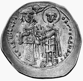 Reverse of electrum scyphate coin of Theodore Komnenos Doukas, ruler of Epirus and of Thessalonica 1215-1230, showing him as Emperor together with St. Demetrios. Probably a coronation issue for his proclamation as emperor in 1227.